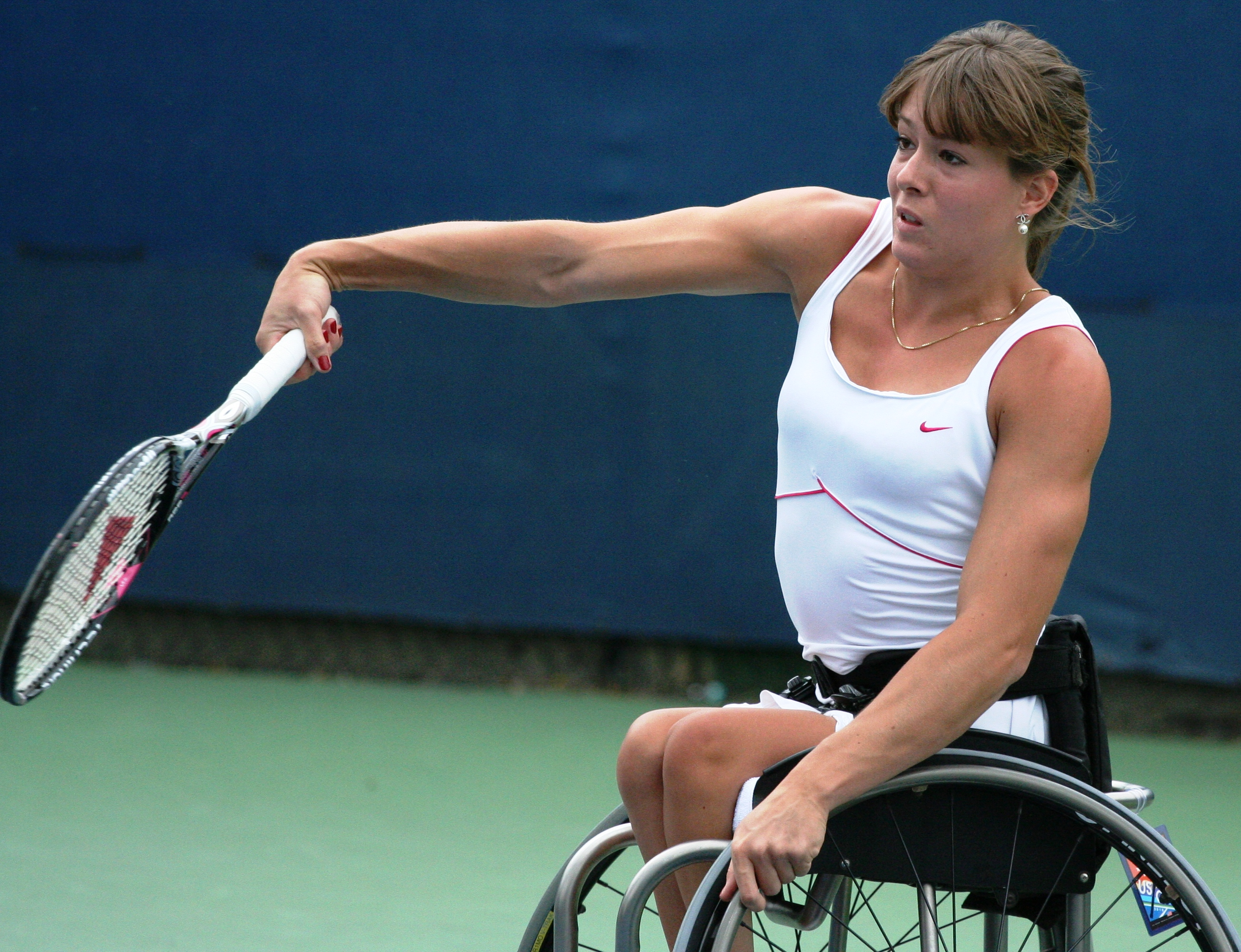 U.S. Open Wheelchair Thursday, Sept. 9, 2010